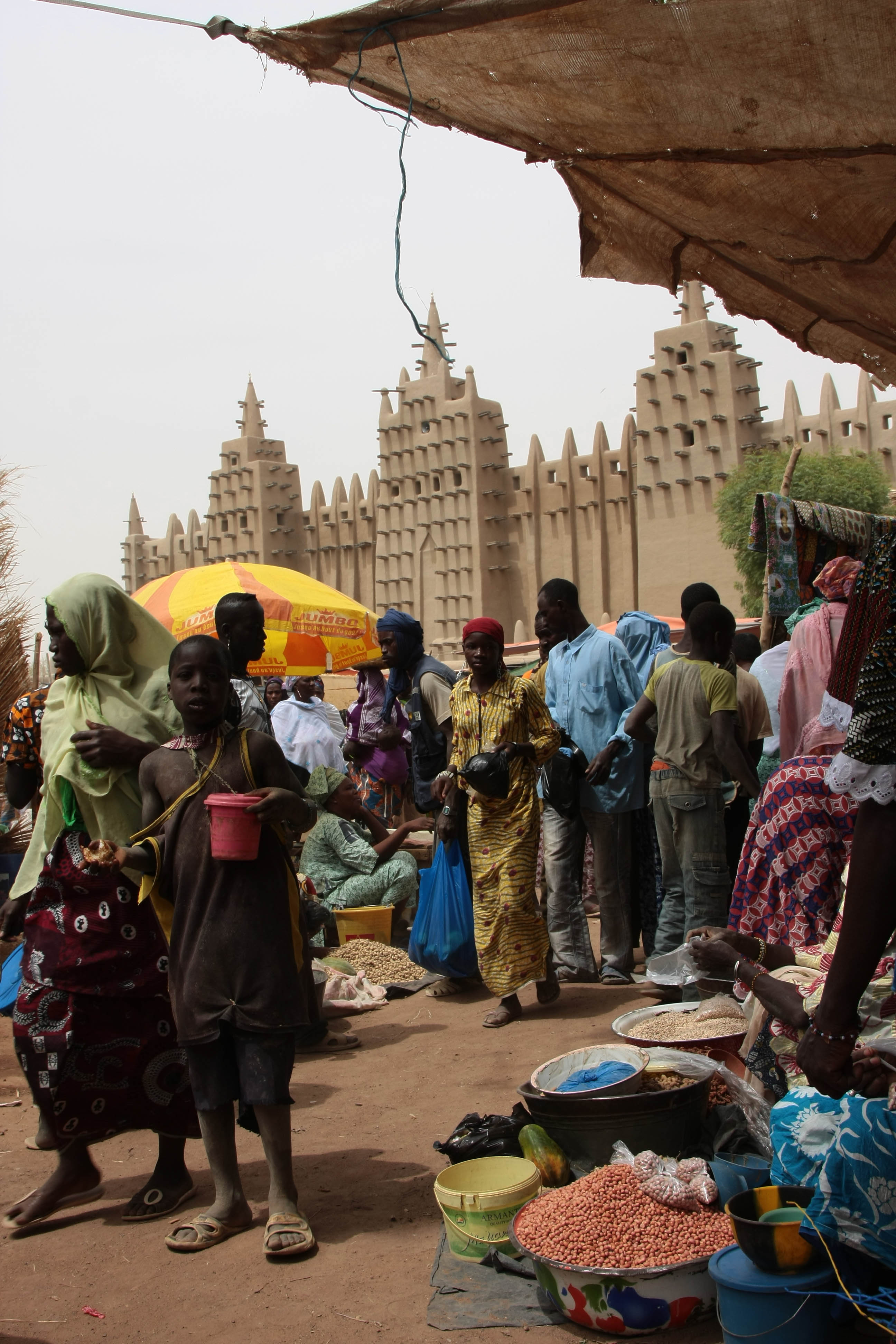 People and places in Mali.